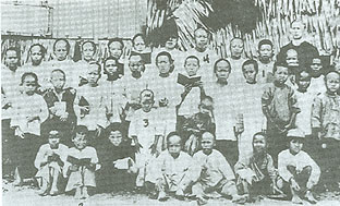 This is a photo of 1903 Chinese students in Sarawak missionary school. Some students still had the pigtails. 1903年新珠山英华学校的学生与校长富雅各牧师等合影，当时大多数的学童非但留有辫子，而且还一副满清朝代的装束。